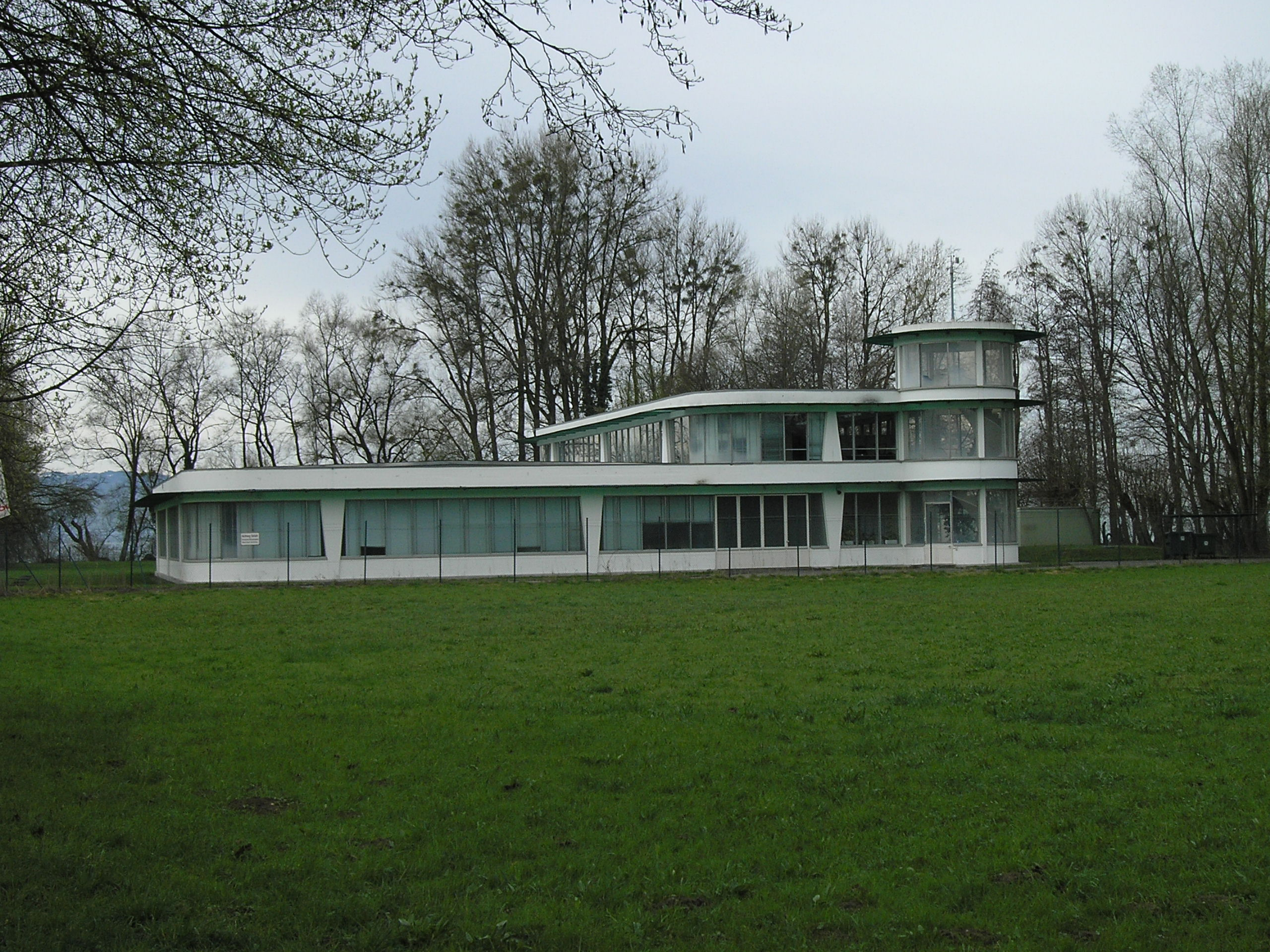 Building of the former Technische Entwicklungsstelle (TES) of Felix Wankel in Lindau.